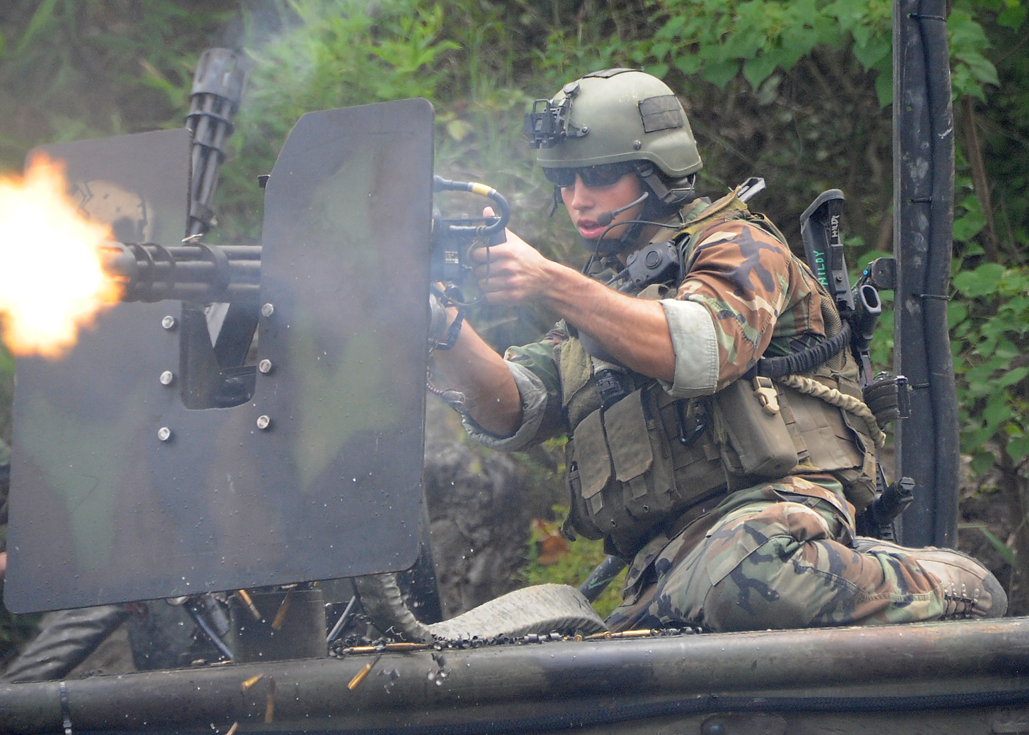 EX-U.S. Navy special warfare combatant-craft crewmen (SWCC) from Special Boat Team 22 drive a special operations craft-riverine at the John C. Stennis Space Center in Mississippi Aug. 16, 2009, for a scene in an upcoming Bandito Brothers production (Act of Valor). SWCC are U.S. Special Operations Command maritime mobility experts.